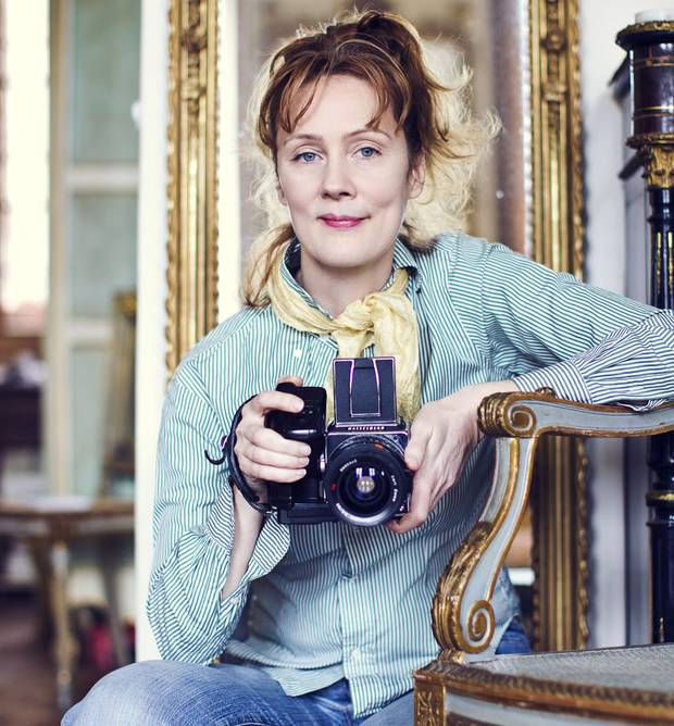 Iris Brosch